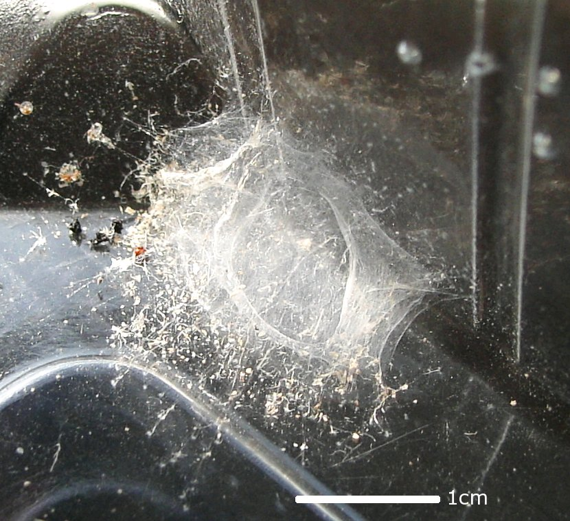 Nightly retreat of a male Hasarius adansoni (a jumping spider), built in a cricket plastic container.